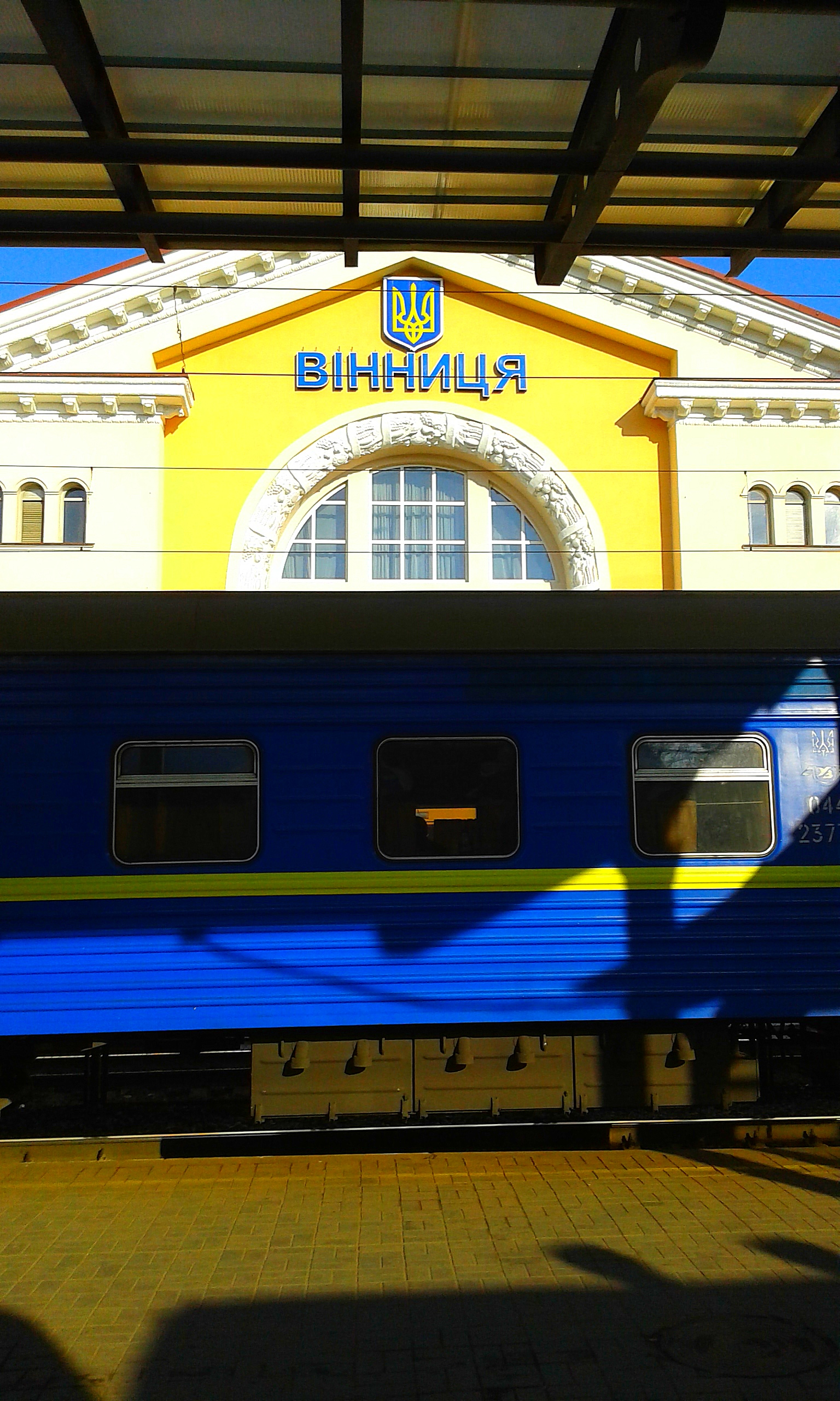 (3) RAILWAY STATION IN CITY OF VINNYTSIA STATE OF UKRAINE PHOTOGRAPH BY VIKTOR O LEDENYOV 20160427